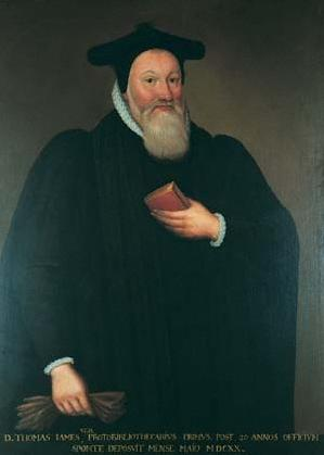 A portrait of Thomas James (1572/73 – 1629), the first Librarian at the Bodleian Library at the University of Oxford.